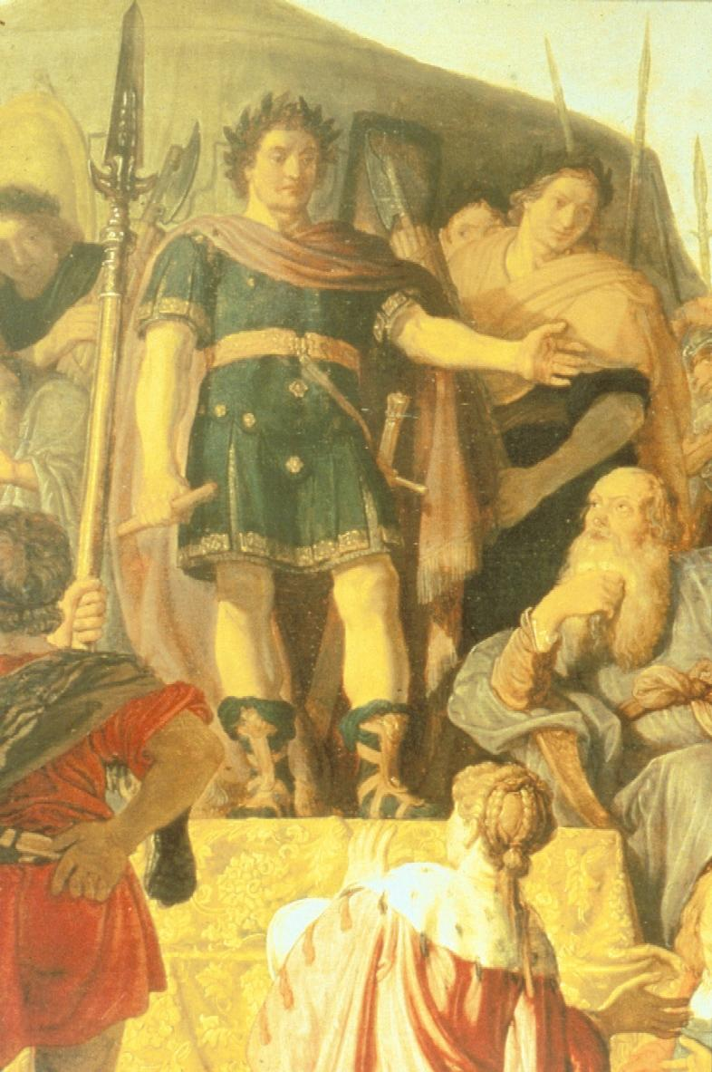 Coriolanus and the Roman envoy.